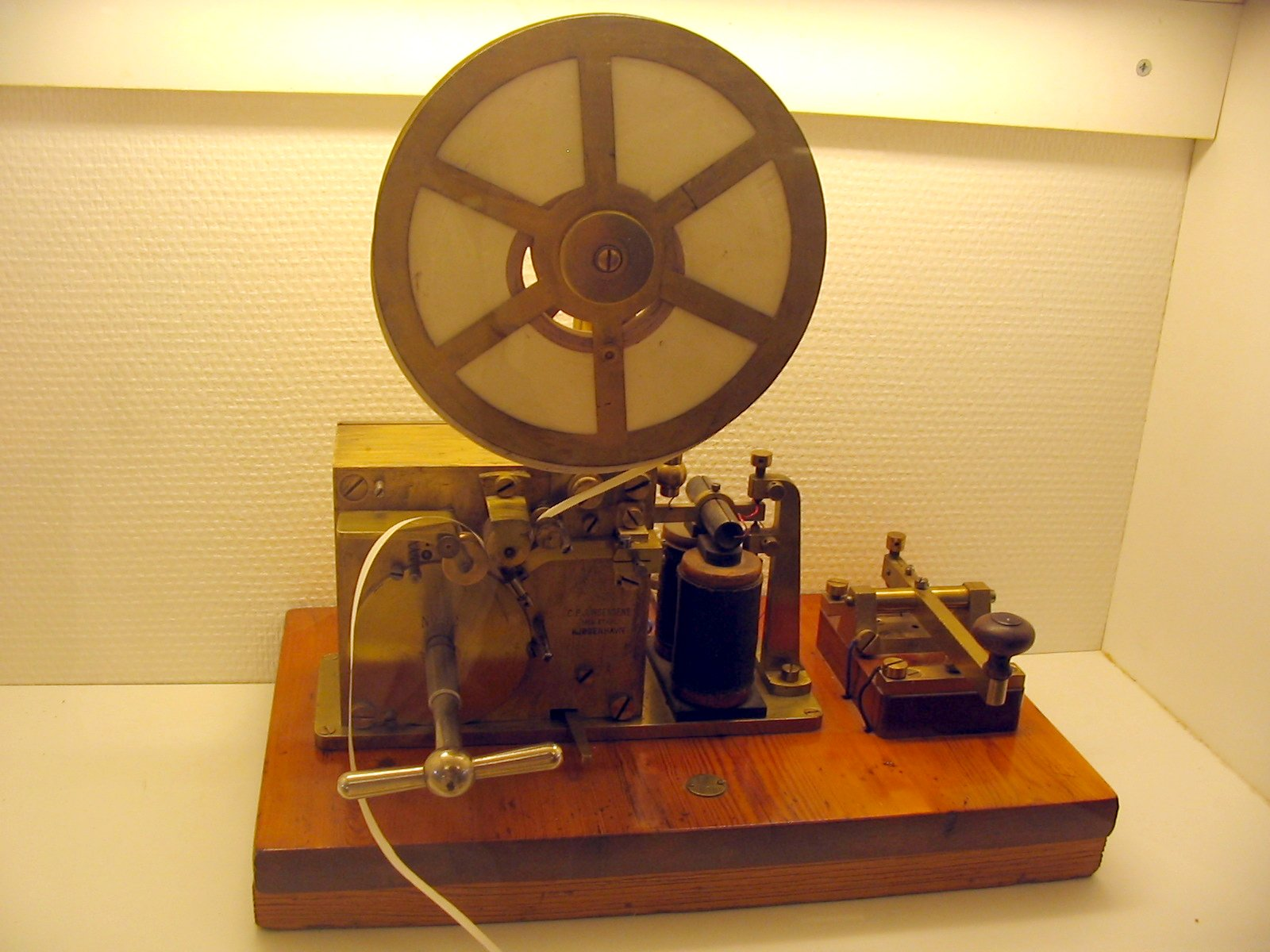 telegraph // Picture taken in Aalborg Maritime Museum, Denmark